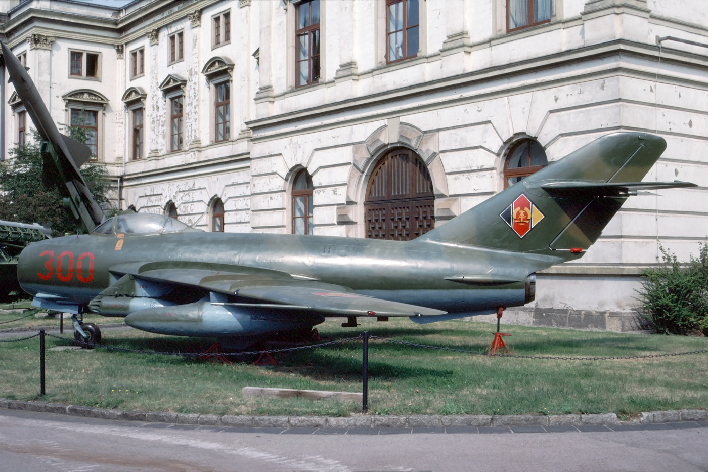 Militärhistorisches Museum Dresden, August 1990. A MiG-17F built in Poland. 300 is now preserved in a museum in Rothenburg.